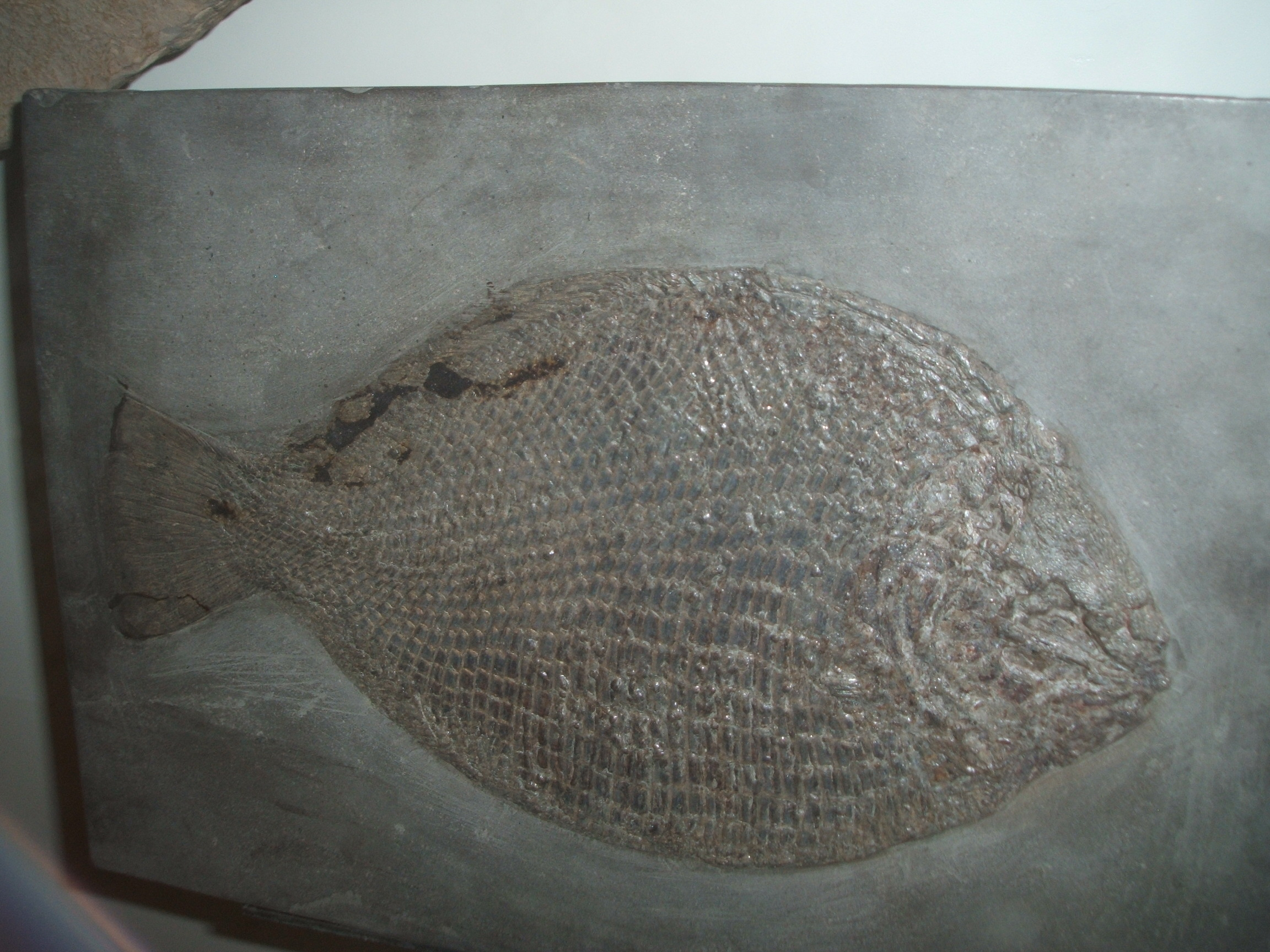 Dapedium pholitodum fossil on display in the American Museum of Natural History (New York City). Specimen AMNH 7538, collected in Zell, Germany, and dated to the early Jurassic period. (Described in its label as having a small mouth with peglike teeth and heavily enameled scales, and being prey of ichthyosaurs and plesiosaurs of the same period.)